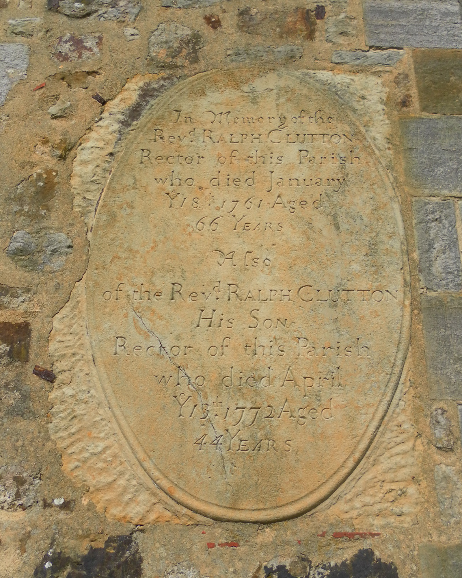 St Giles' Church, Church Lane, Horsted Keynes, district of Mid Sussex, West Sussex, England. An Anglican church built in the 12th–13th century to serve this village in a rural part of Mid Sussex. This is a stone memorial to 18th-century former rector Rev Ralph Clutton and his son, also a rector.